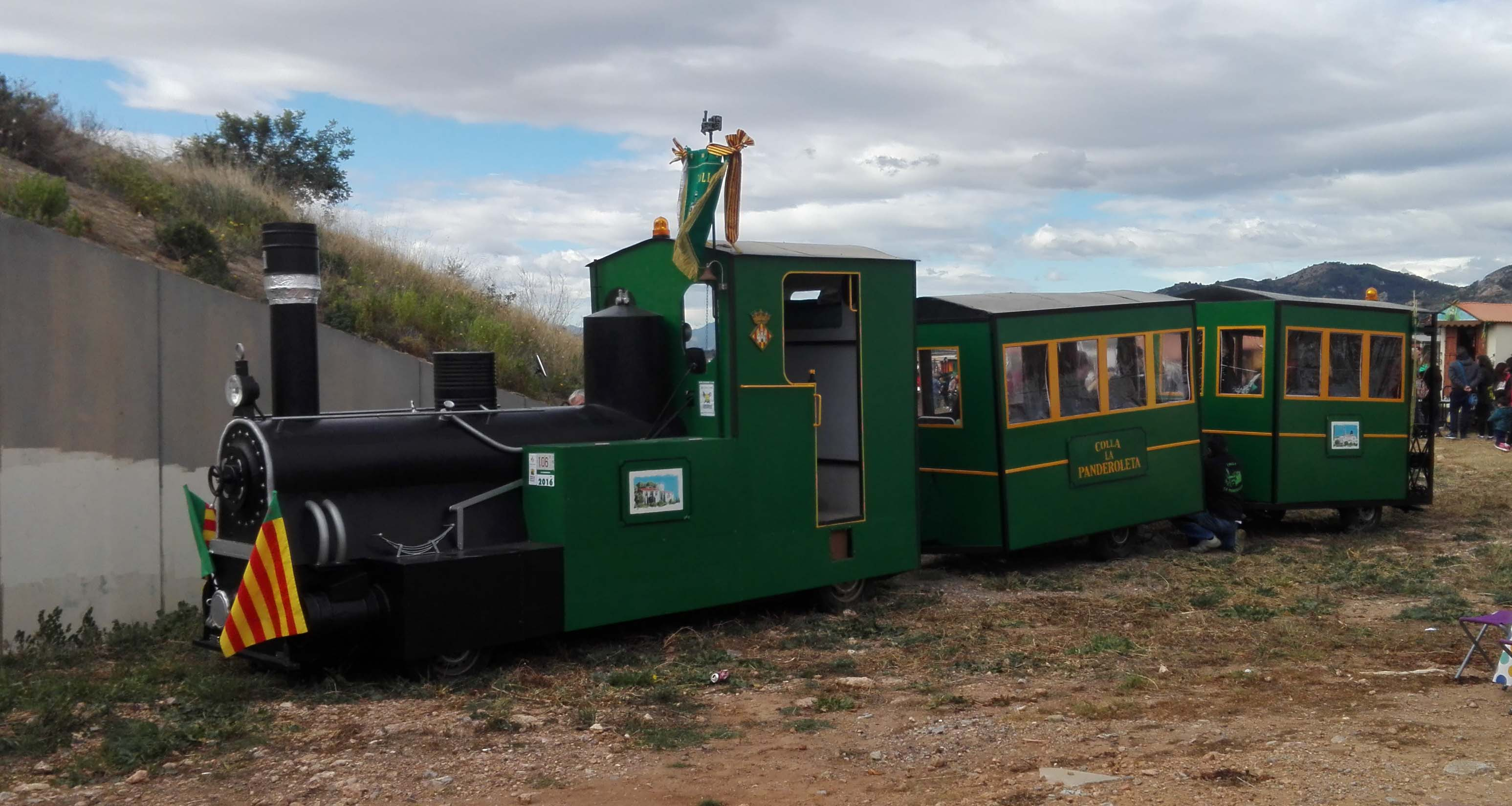 Bedecked carriage or "carromato" whith the form of La Panderola from a Colla in Magdalena festival 2016. Castelló de la Plana, Spain.